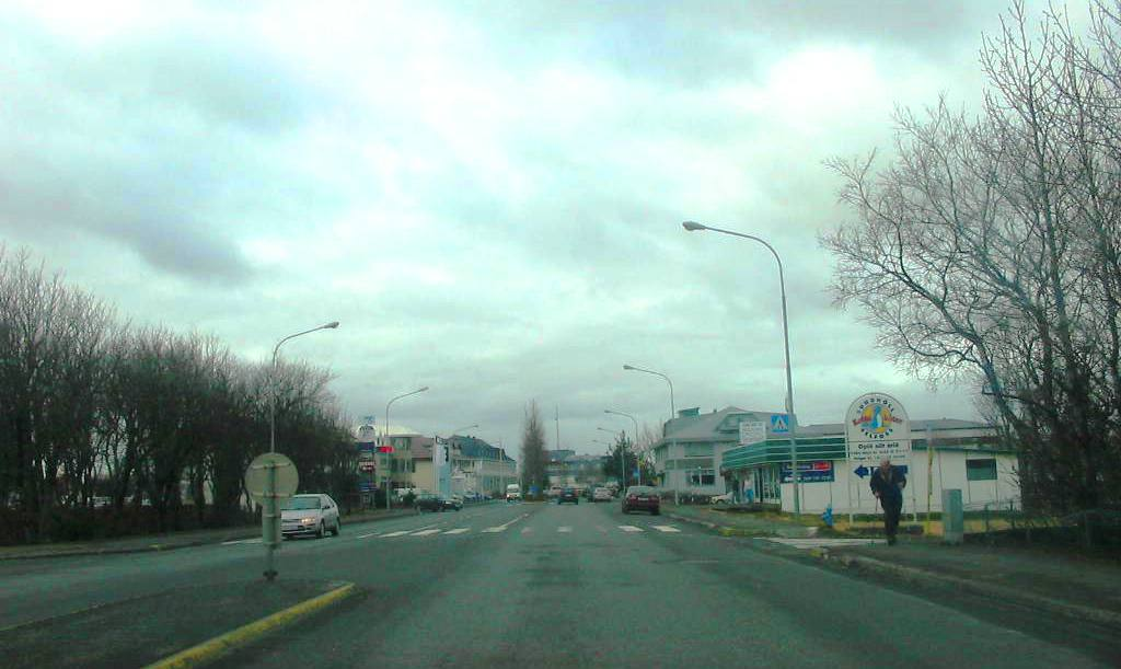 Road view from Selfoss, Iceland.